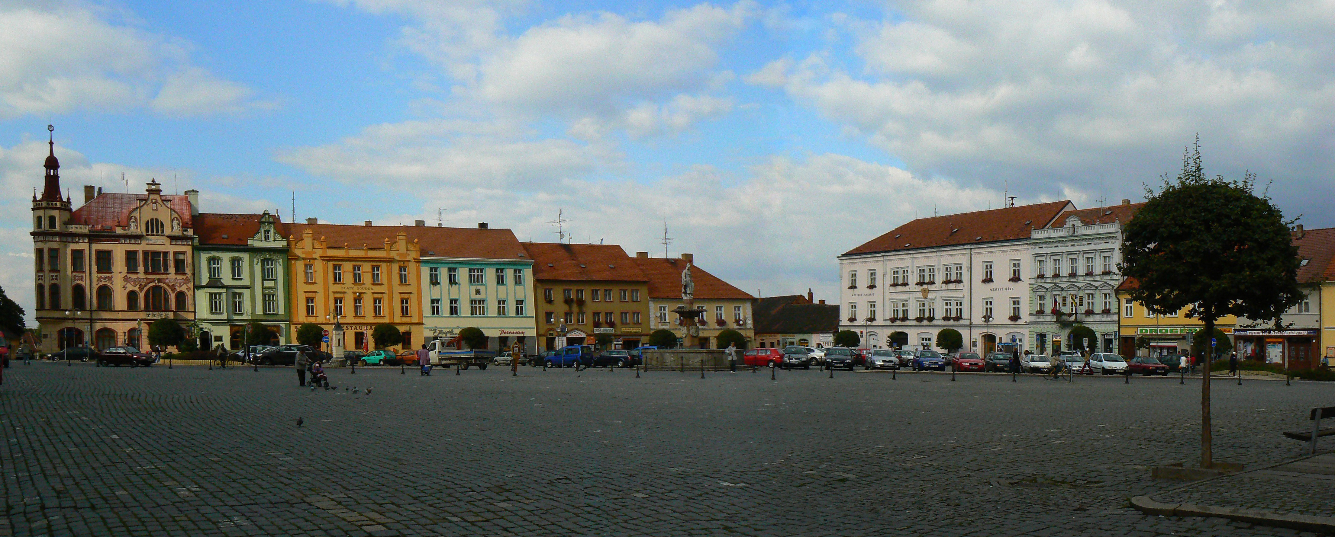 Vodnany panorama (Czech Republic)